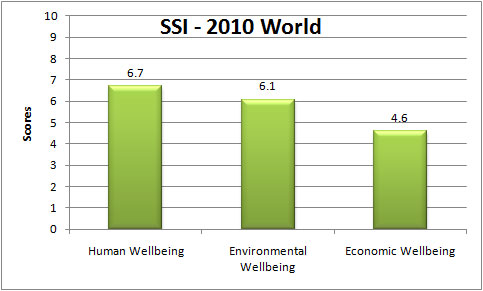 SSI index for the World